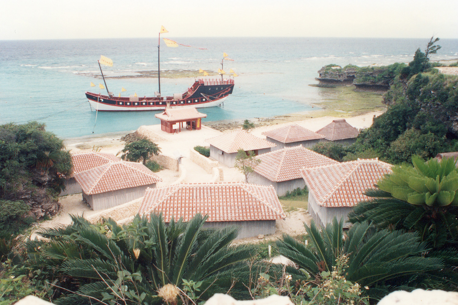 This photograph shows a theme park created on the former set of the Taiga drama television series Ryūkyū no Kaze (1993, NHK). Yomitan, Okinawa, Japan. I took the photo and contribute the file to the public domain.